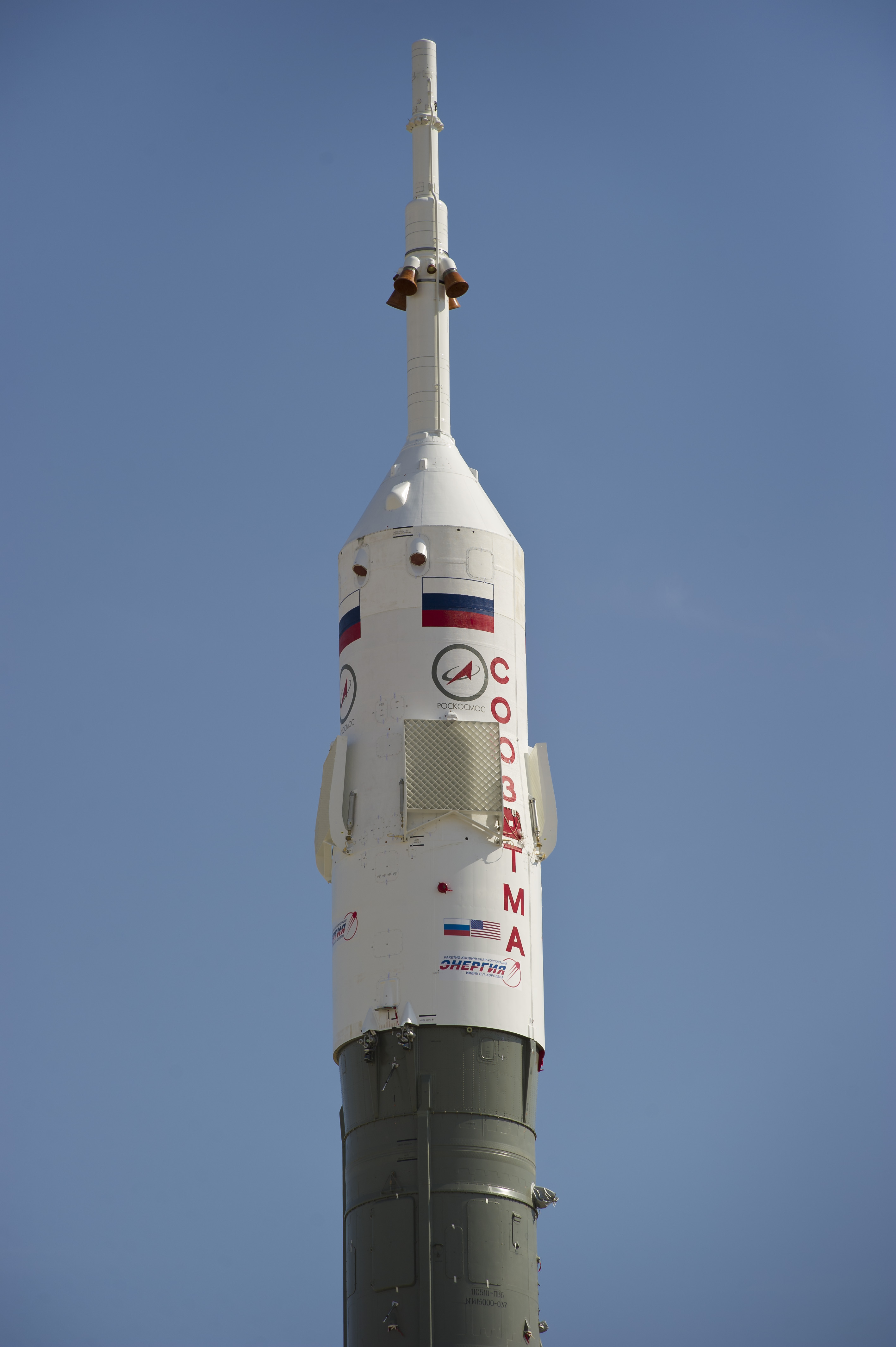 The upper stage of the Soyuz TMA-02M rocket, in which the crew capsule is located, is pictured here at the launch pad on Sunday, June 5, 2011 at the Baikonur Cosmodrome in Kazakhstan. The TMA-02M spacecraft will carry Expedition 28 Soyuz Commander Sergei Volkov of Russia, NASA Flight Engineer Mike Fossum and JAXA (Japan Aerospace Exploration Agency) Flight Engineer Satoshi Furukawa to the Internationa Space Station.